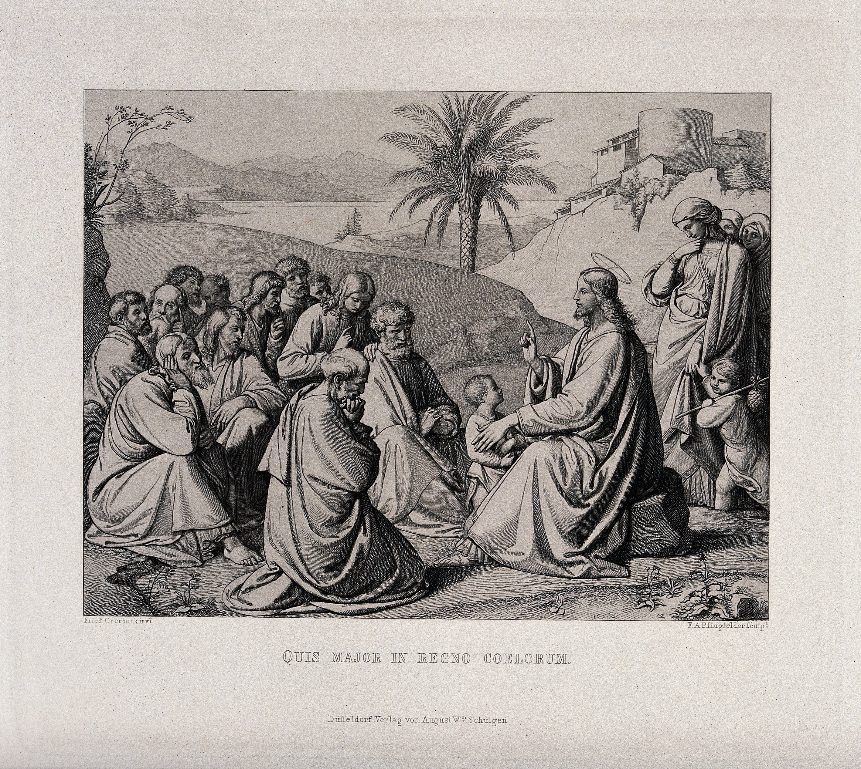 Christ tells the apostles that to be as humble as a child makes one the greatest in the kingdom of heaven. Etching by A. Pflugfelder after J.F. Overbeck, 1846. Iconographic Collections Keywords: Jesus Christ; Johann Friedrich Overbeck; August Pflugfelder